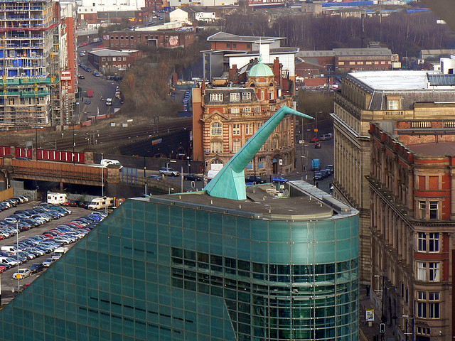 Closer look at that roof on Urbis.